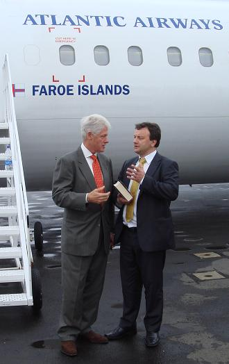 Vágar Airport, Faroe Islands Bill Clinton visit on the Faroe Islands, October 2007